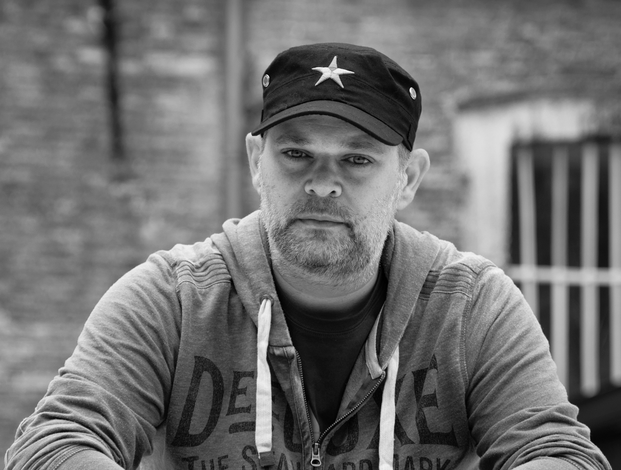 self-portrait of Khalil Sehnaoui